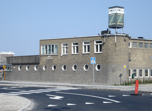 Malmö Roddklubb located at Slussplan in Malmö